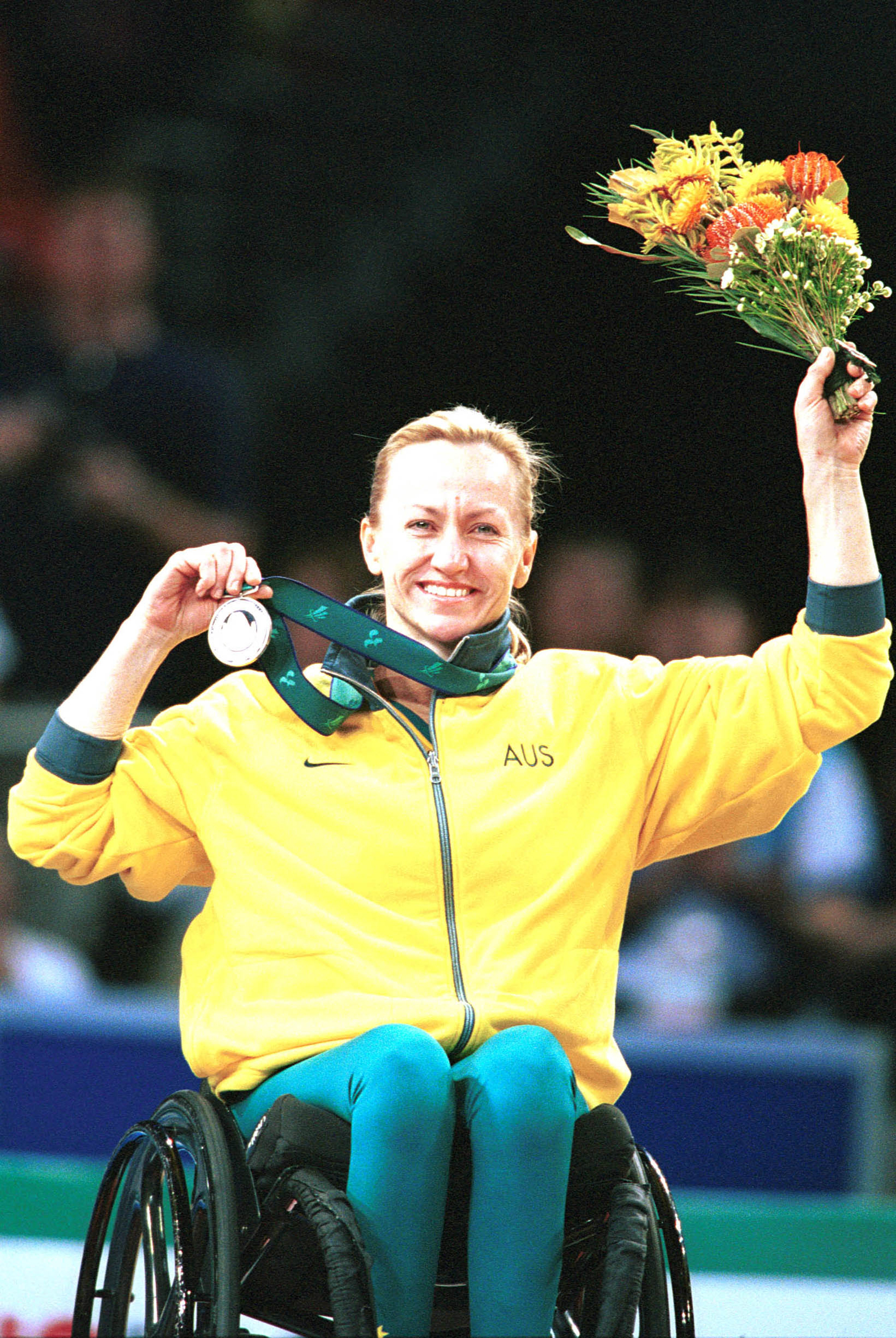 Australian wheelchair basketballer Donna Ritchie celebrates with her silver medal at the 2000 Sydney Paralympic Games